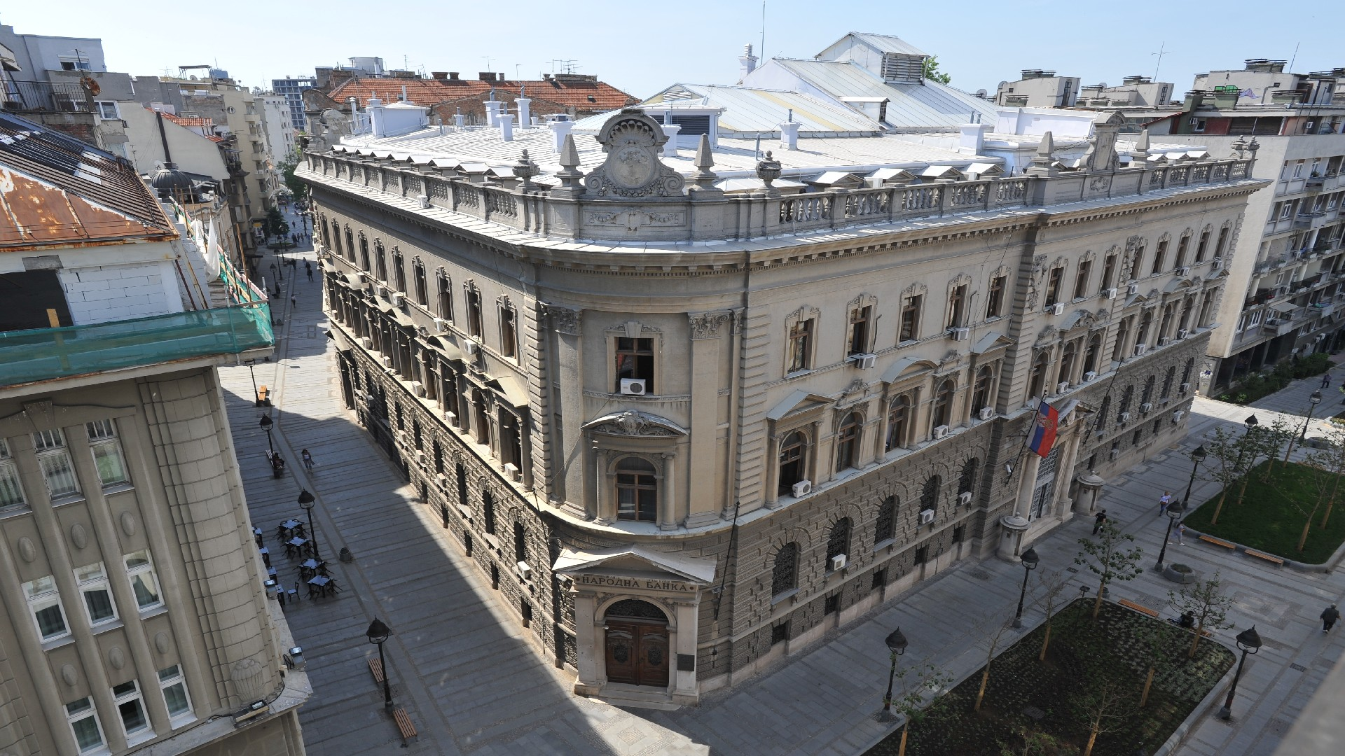 National Bank building in Belgrade